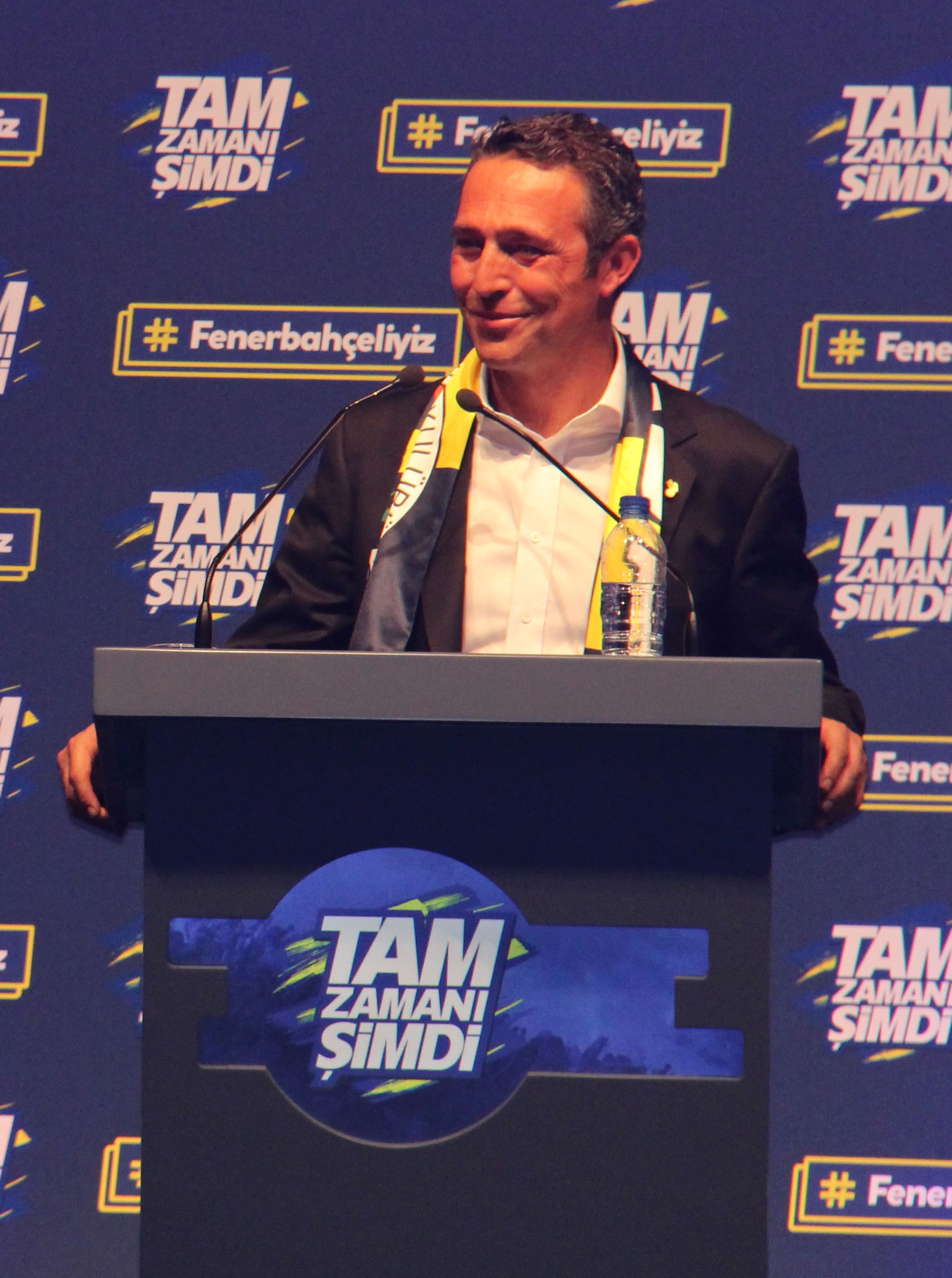 Ali Koç Presidential Campaign, İzmir Meeting, Kaya İzmir Thermal & Convention, 30 March 2018